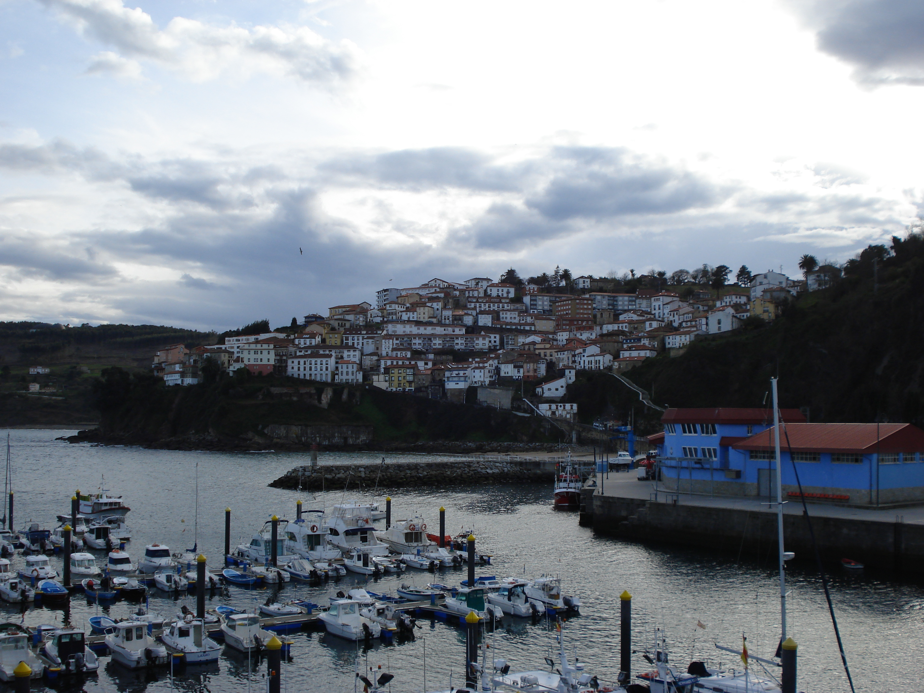 Parish and port of Lastres, in Asturias